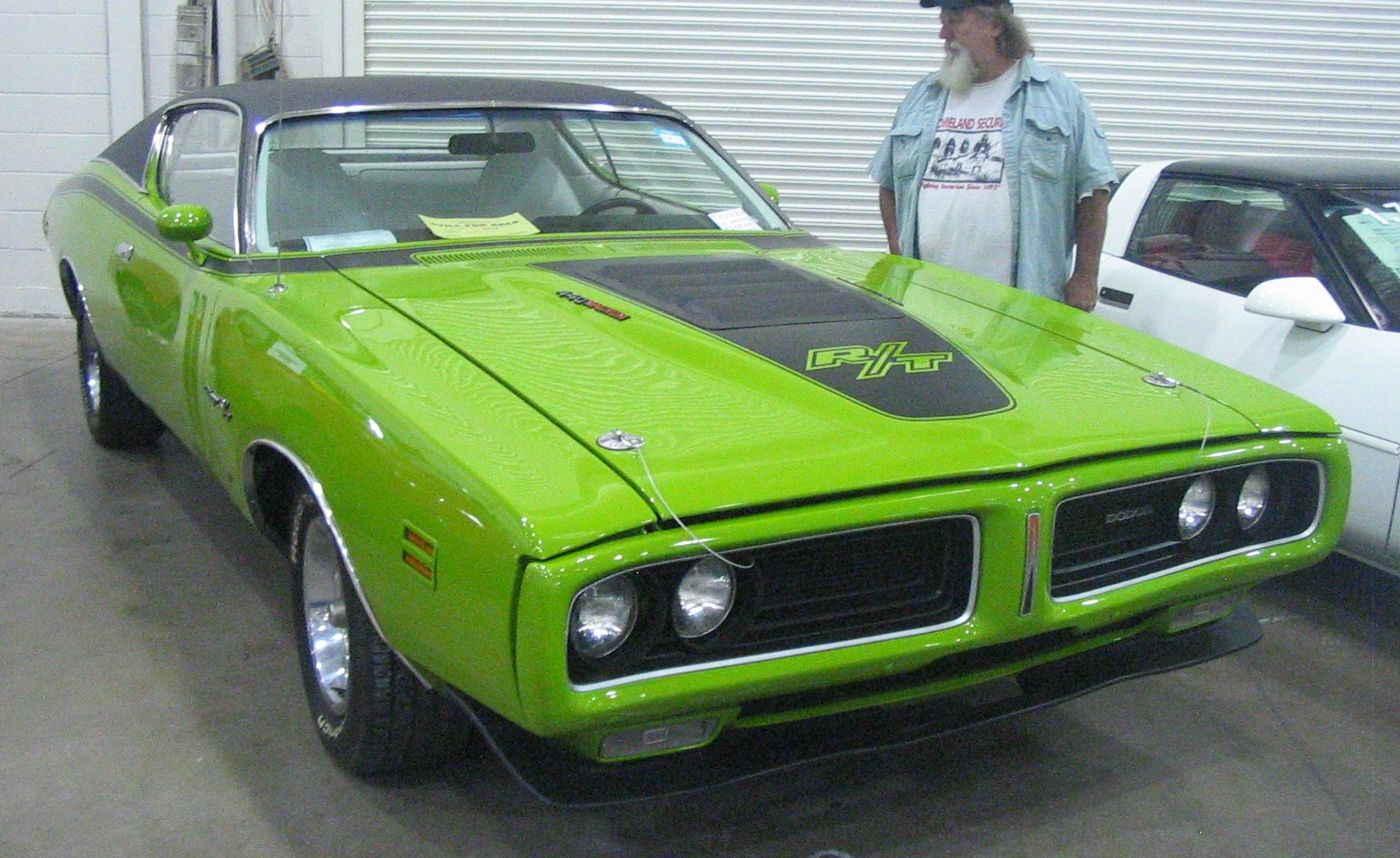 1971 Dodge Charger photographed in Mississauga, Ontario, Canada at the Toronto Classic Car Auction of spring 2012.